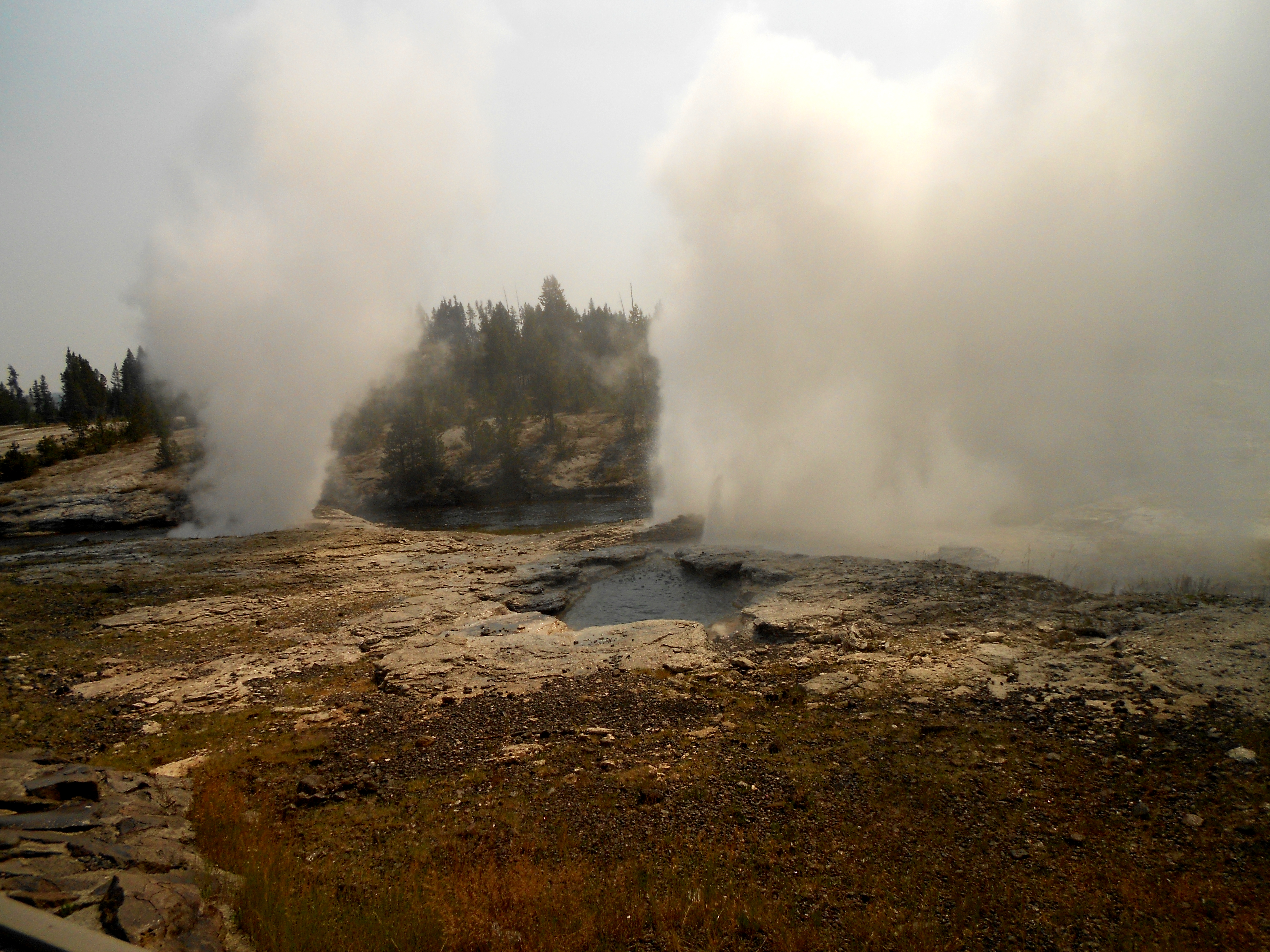 Fan and Mortar Geysers erupting simultaneously, August 12 2012. Slight editing to adjust brightness and contrast.